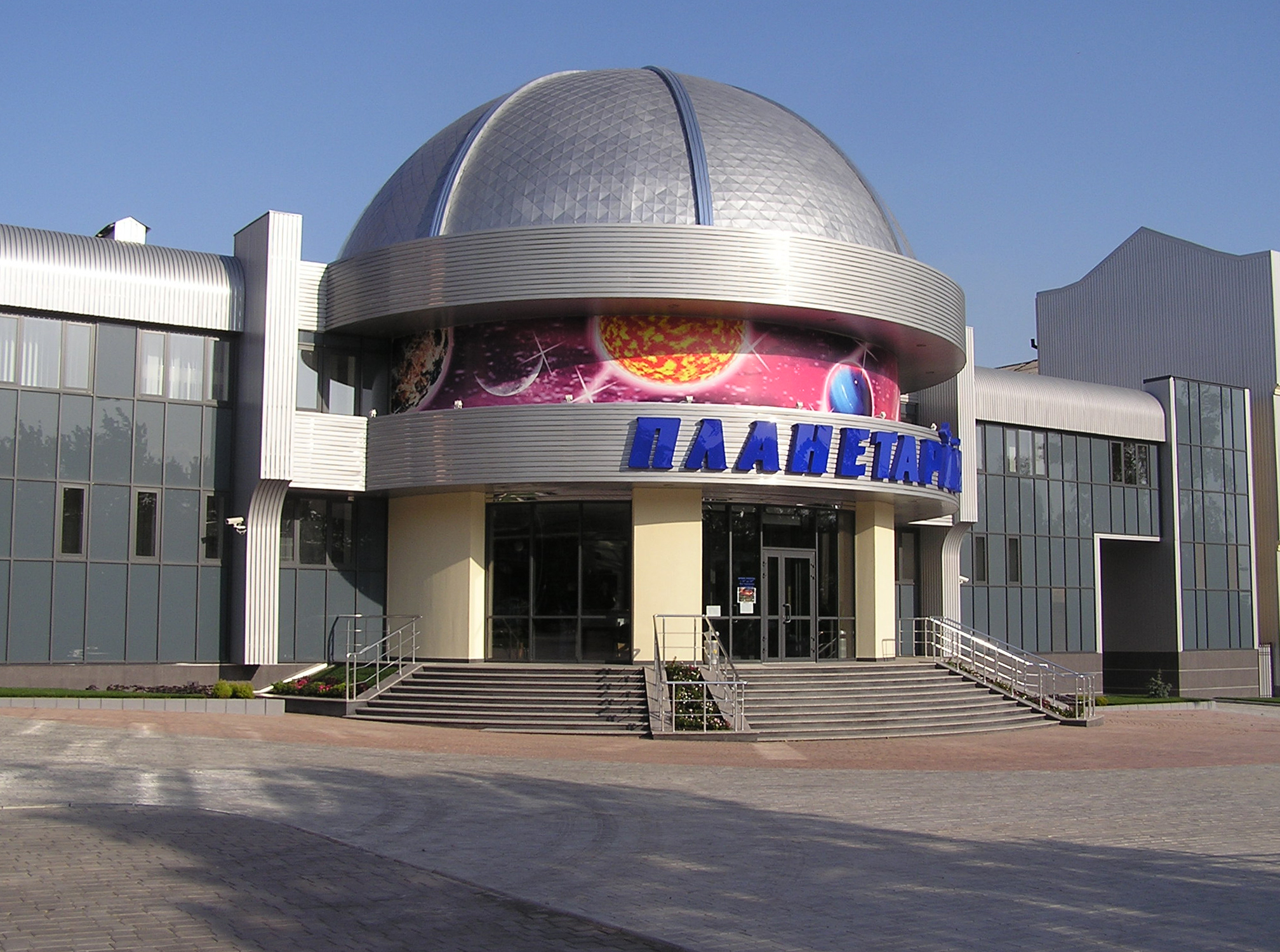 Planetarium in Donetsk